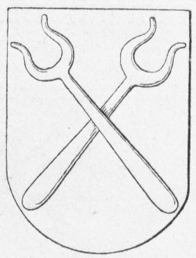 Coat of arms of Gjerlev Herred (Hundred), a former administrative subdivision of Denmark, 1610 version. Illustration from the article Om danske By- og Herredsvaaben written by Anders Thiset and published in Tidsskrift for Kunstindustri 1893-1894.